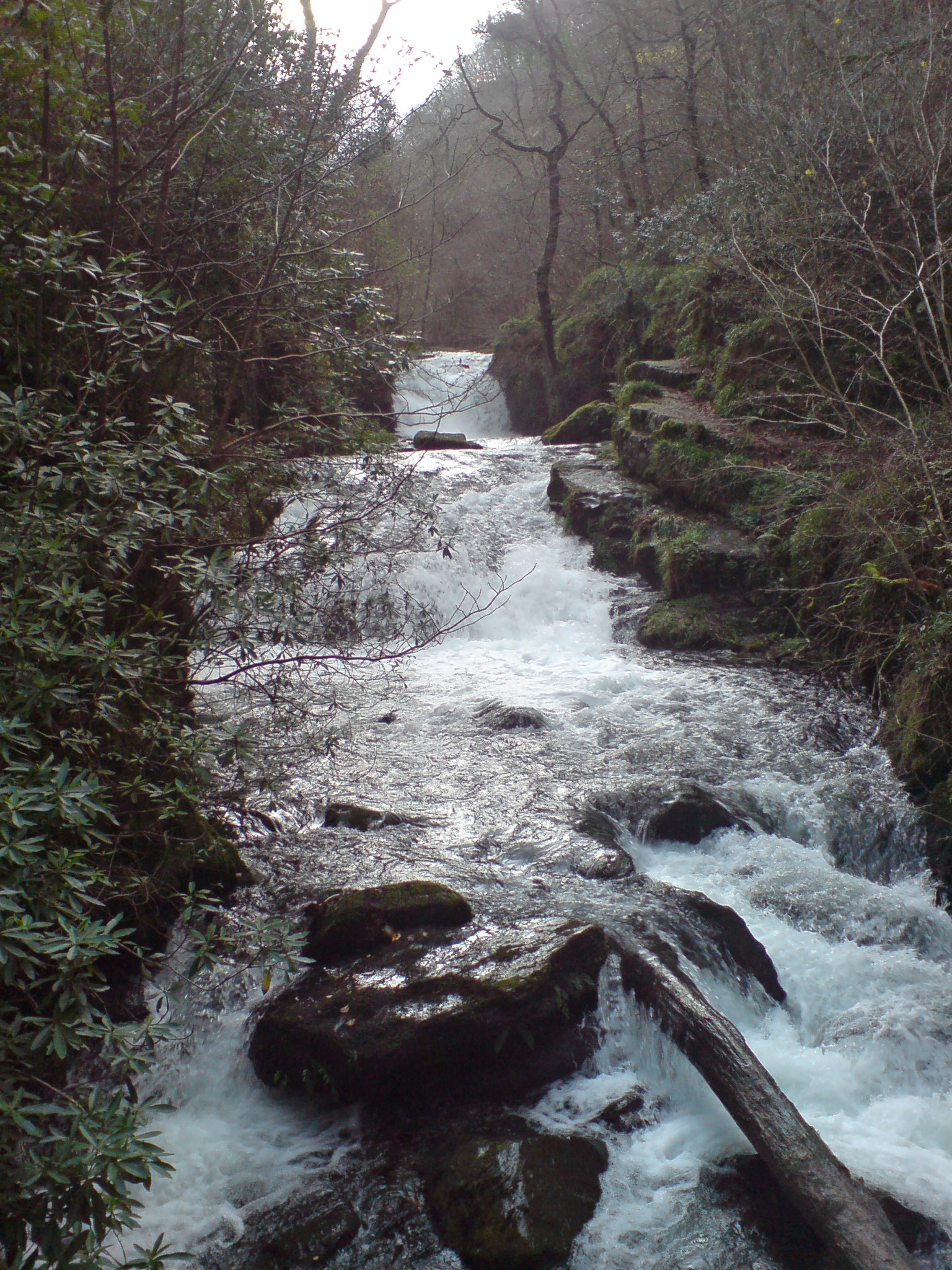 Author:Hoar Oak Water Jamsta